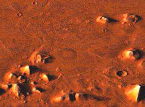 Area Cydonia, Mars. Face of Mars and pyramids.